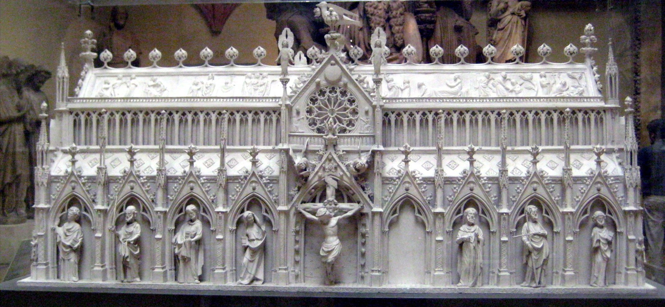 Shrine of s. Gertrude of Nivelles. Authors: Colar of Douai, Jakemon of Nivelles; project of Jakemon of Anchen. 1272-1298. Cast in Pushkin museum from silver original formely in church of Saint Gertrude in Nivelles, Belgium. Original was destroyed in 1940 with some fragments left